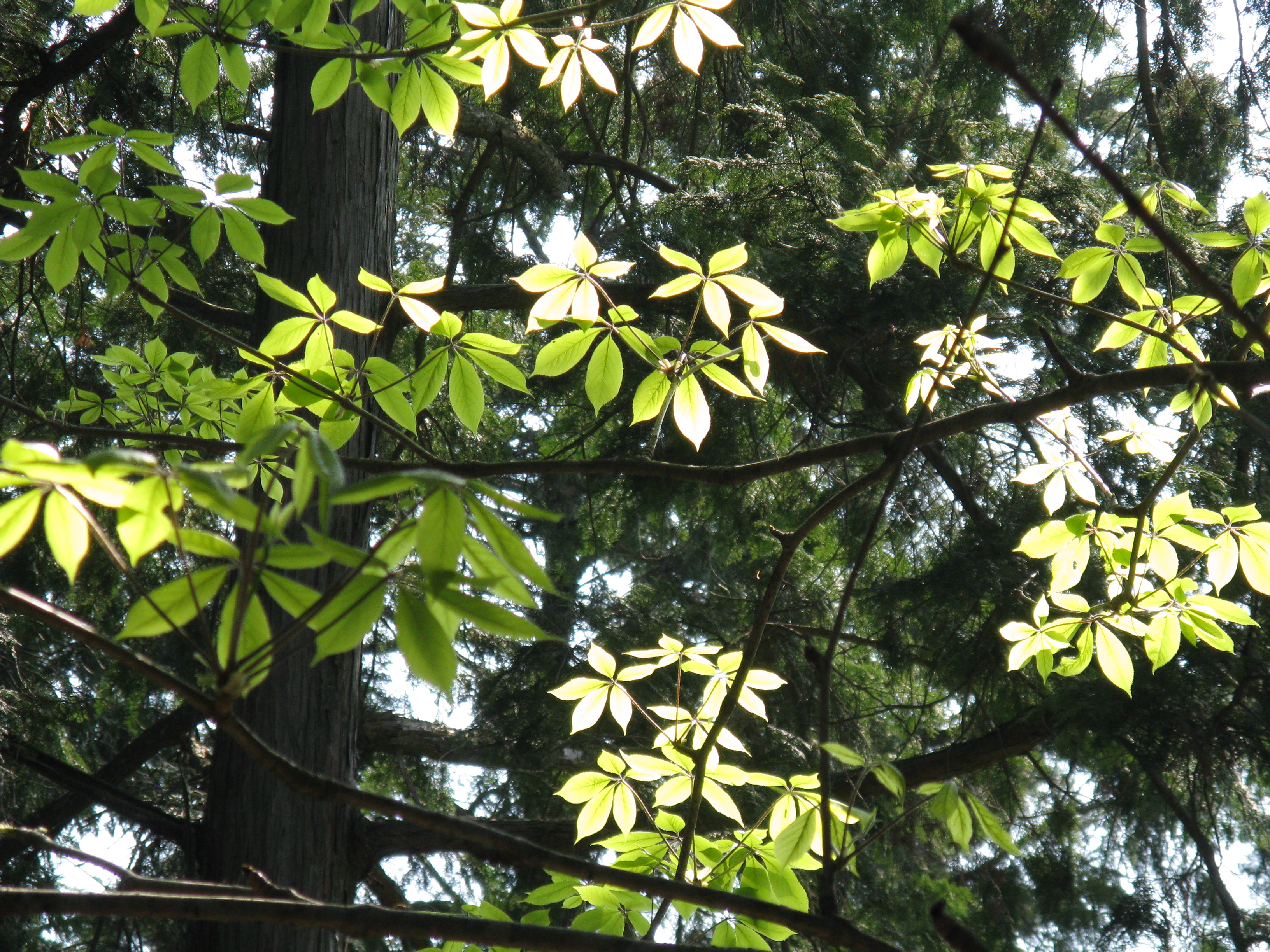 Chengiopanax sciadophylloides